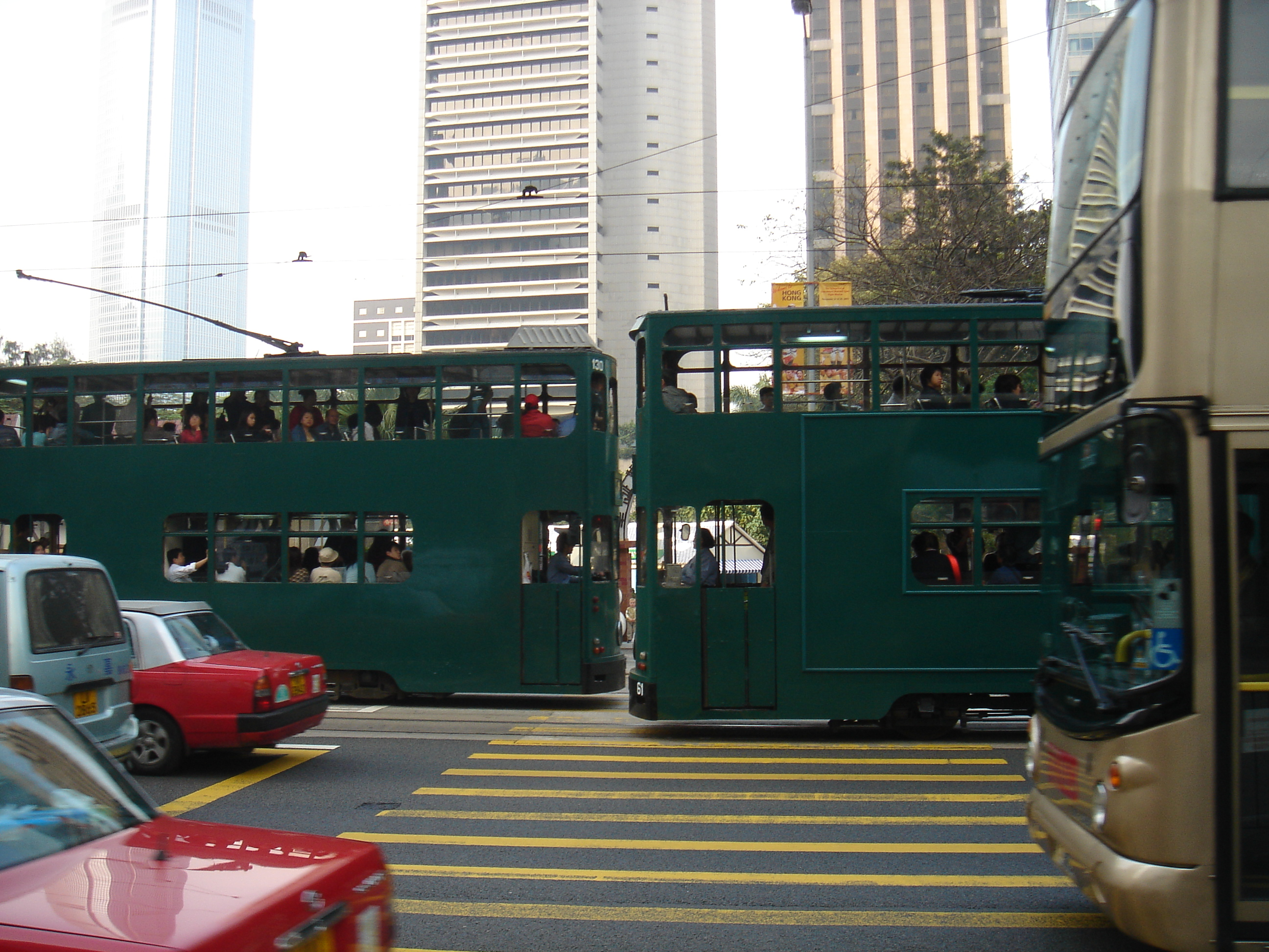 Hong Kong trams passing each other at Central, Hong Kong.